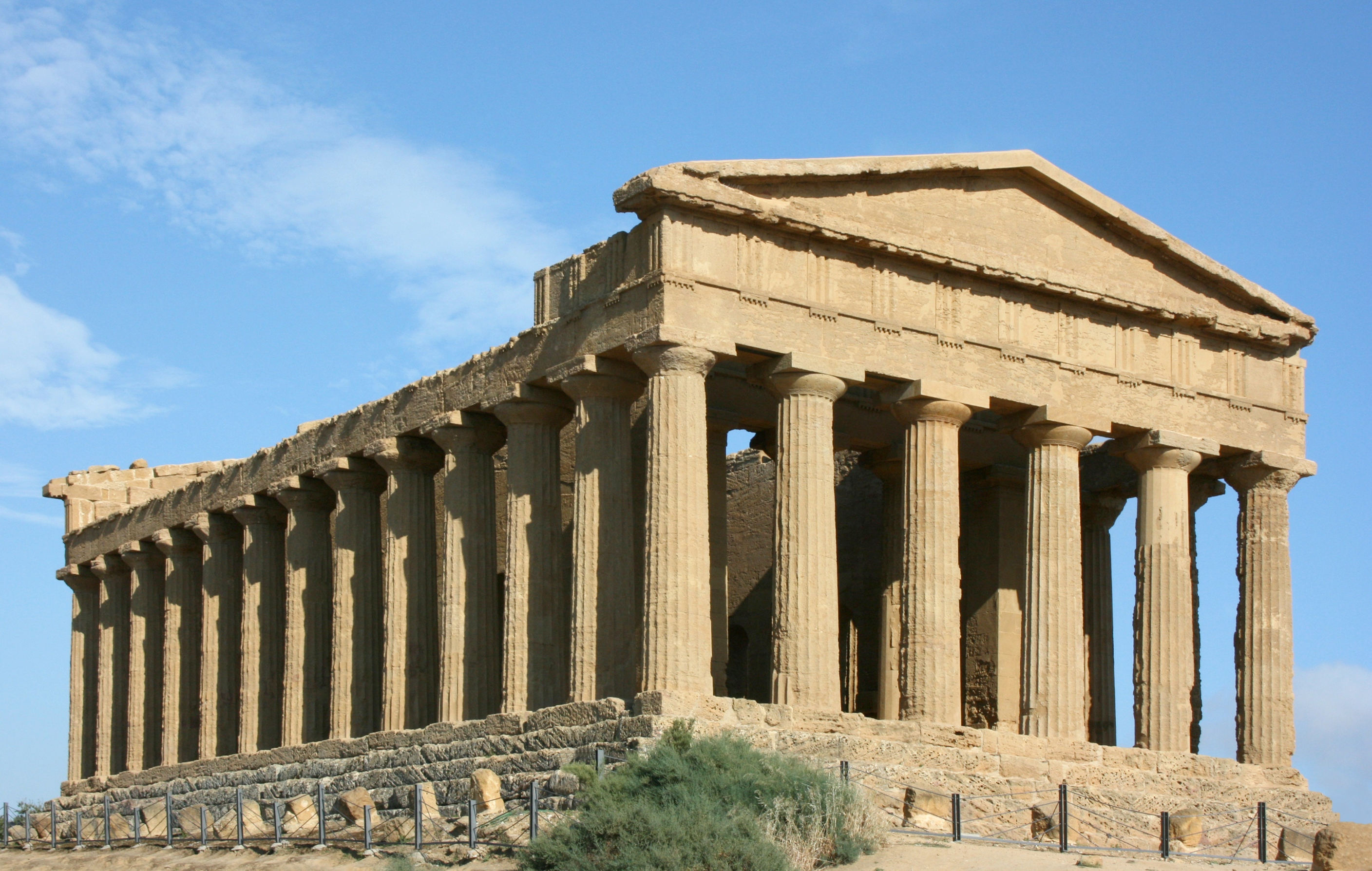 Agrigento (Sicily, Italy). Temple of Concordia.